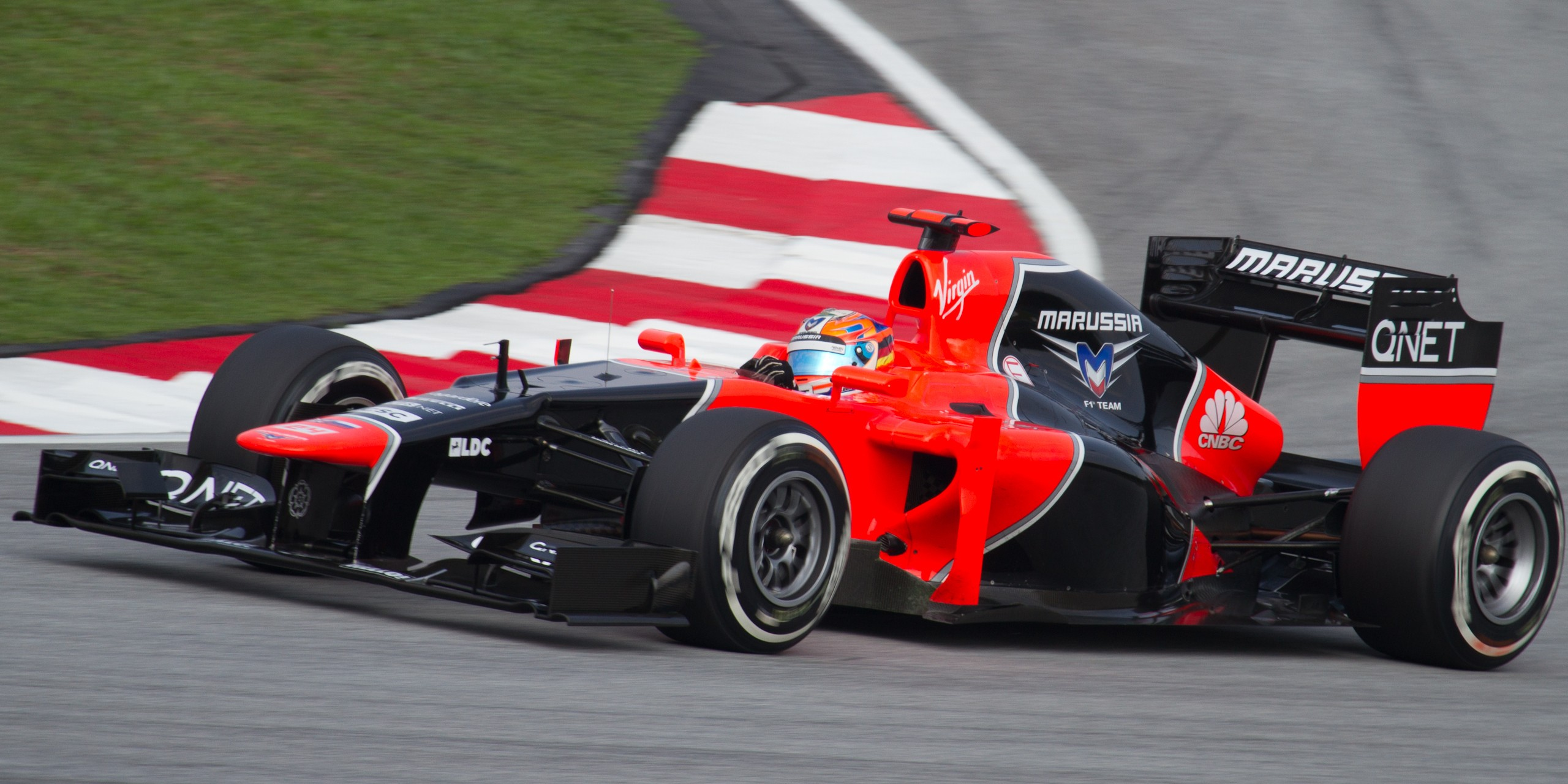 Formula One 2012 Rd.2 Malaysian GP: Timo Glock (Marussia) during the qualify session on Saturday.